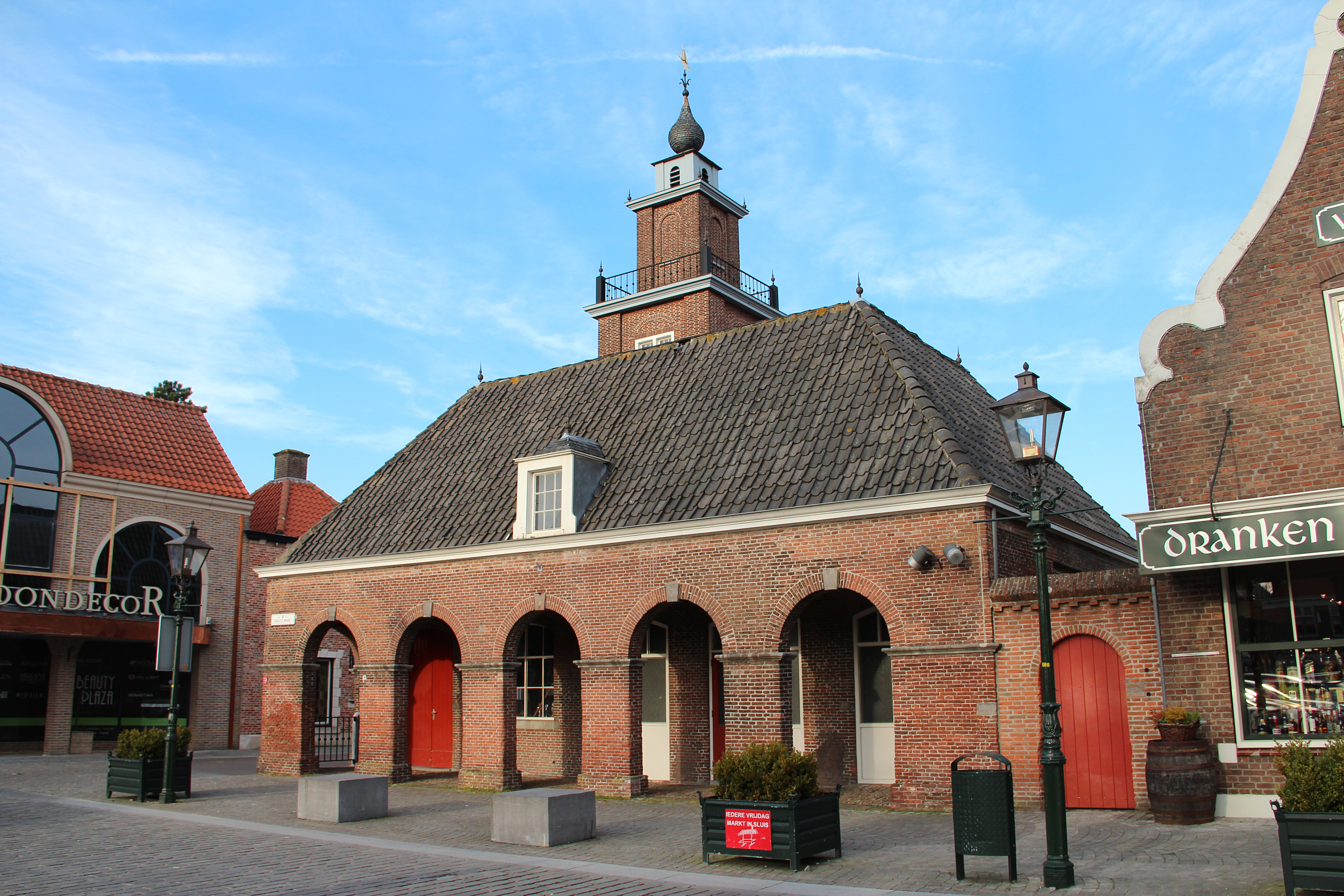 Sluis (Nederland): Firehouse - corner building with an open gallery with five arches.